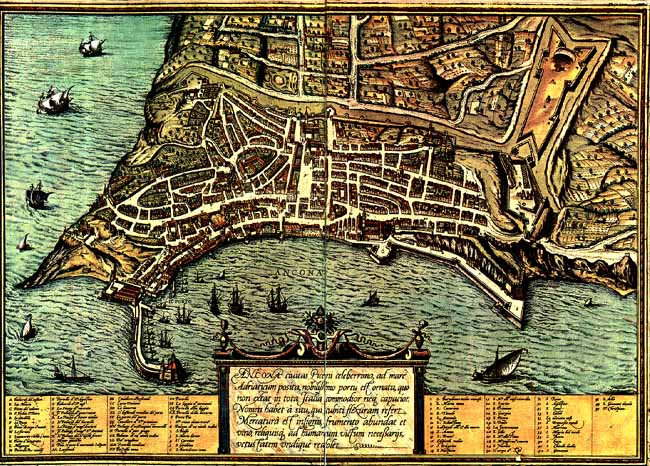 Map of Ancona, XVI century